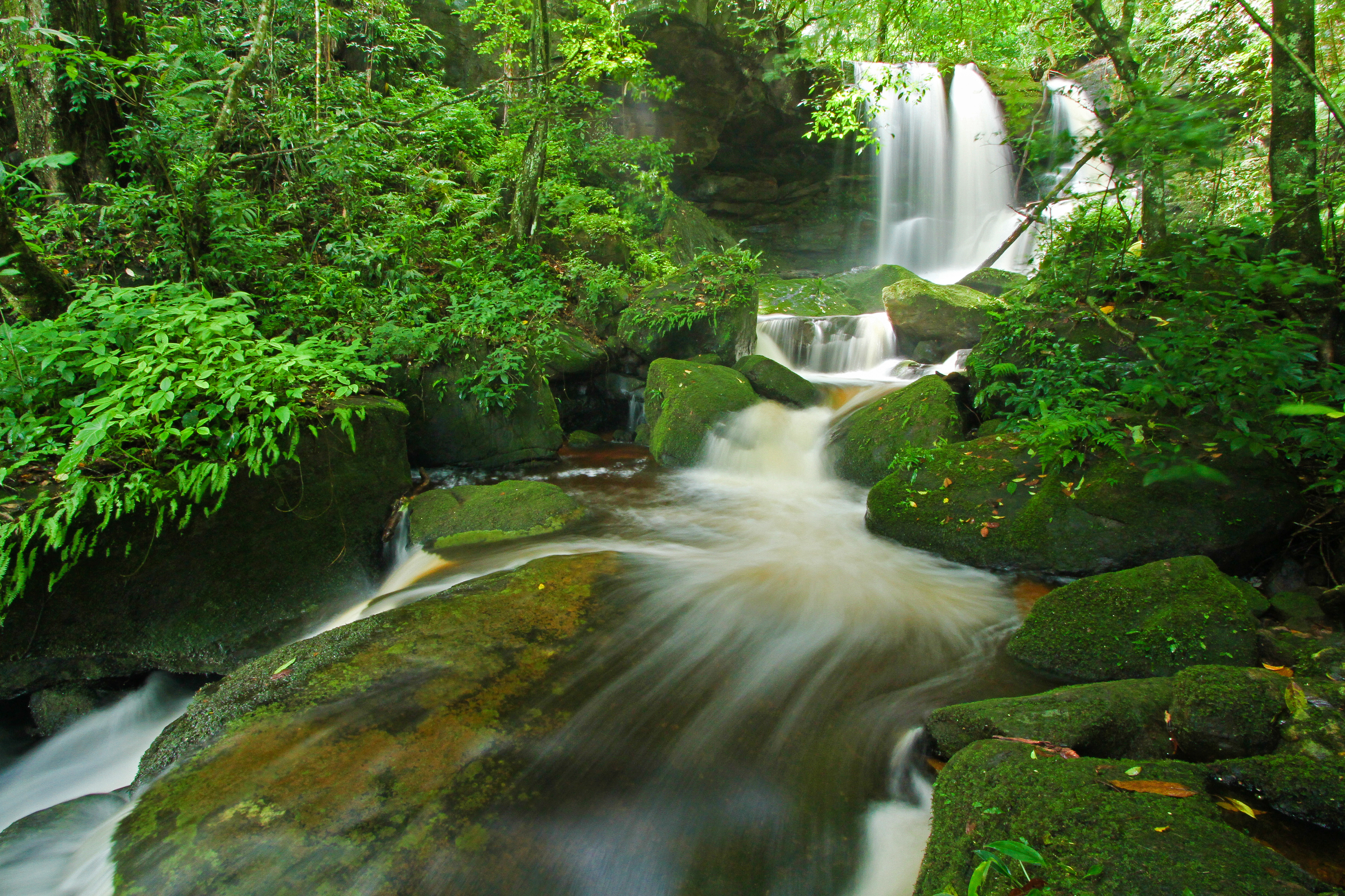 Man Daeng Waterfall, Phu Hin Rong Kla National Park, Loei Province